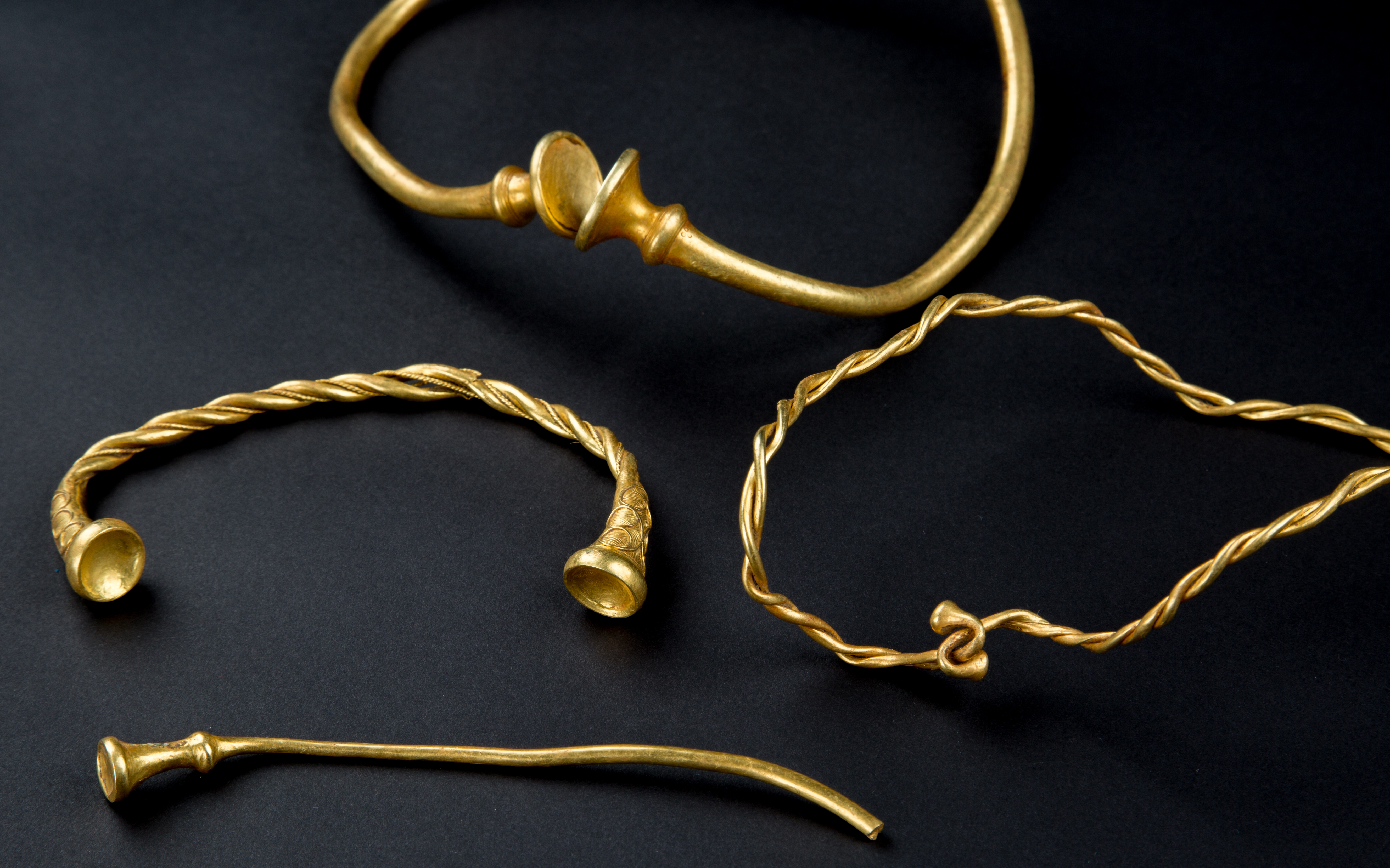 Staffordshire Strikes Gold With Iron Age Find - FEB 28 2017 An archaeological find on Staffordshire farmland is believed to include the earliest examples of Iron Age gold ever discovered in Britain. The collection, which has been named the Leekfrith Iron Age Torcs, was discovered by two Staffordshire metal detectorists just before Christmas 2016. Unveiling the torcs today (on February 28 2017), experts said the unique find could date back as far as 400BC and was of huge international importance.